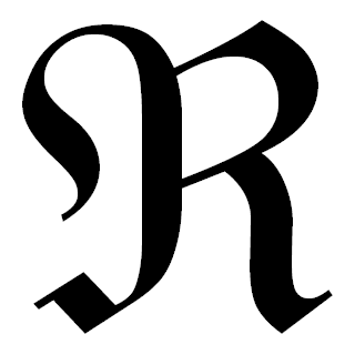 Fraktur R symbol used for denoting the real part of complex number, "Arial Unicode MS" at U+211C.